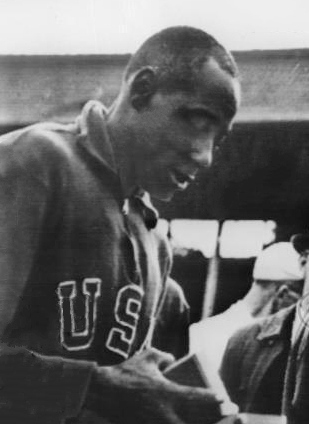 1948 Press Photo Barney Ewell, Lorenzo Wright, Olympics, London, Duke, Edinburgh